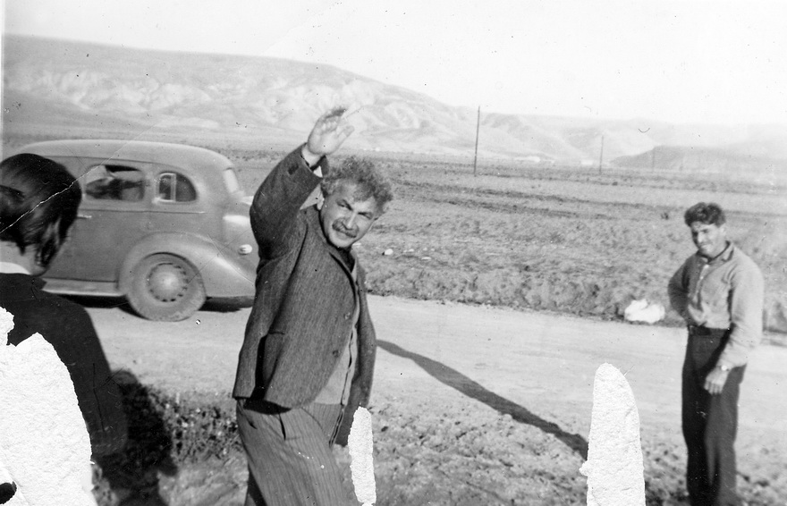 Berl Katznelson near the "Arlozorov" railway station Afikim. Arrived on the occasion of the 25th anniversary of the Kinneret group and the Amalia Israel wedding